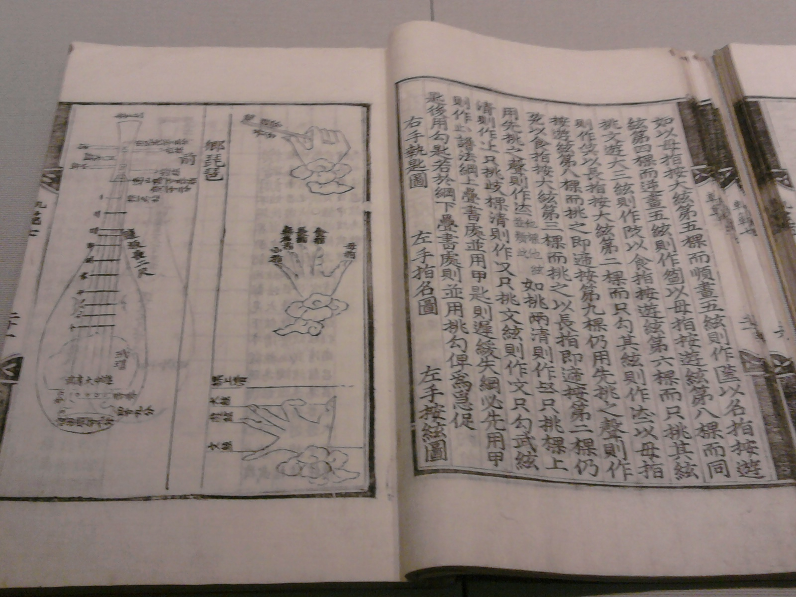 Musical Canon displayed in Seoul National University Kyujanggak Institute for Koreanology Studies